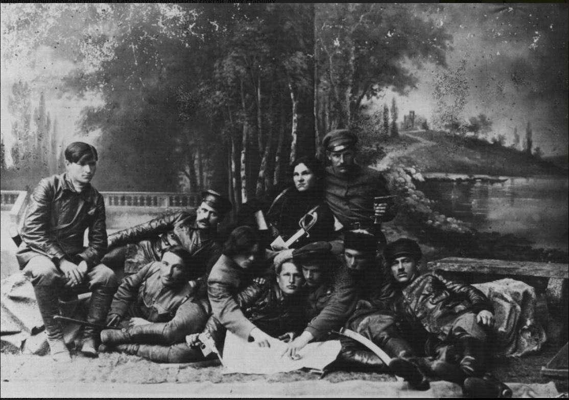 From left to right Bottom row: I. Lyuty, P. Belochub, N. Makhno, V. Kurylenko, F. Schus, Y. Ozerov, and A. Chubenko Top row: A. Olkhovik, P. Puzanov, and Novikov Berdyansk, 1919